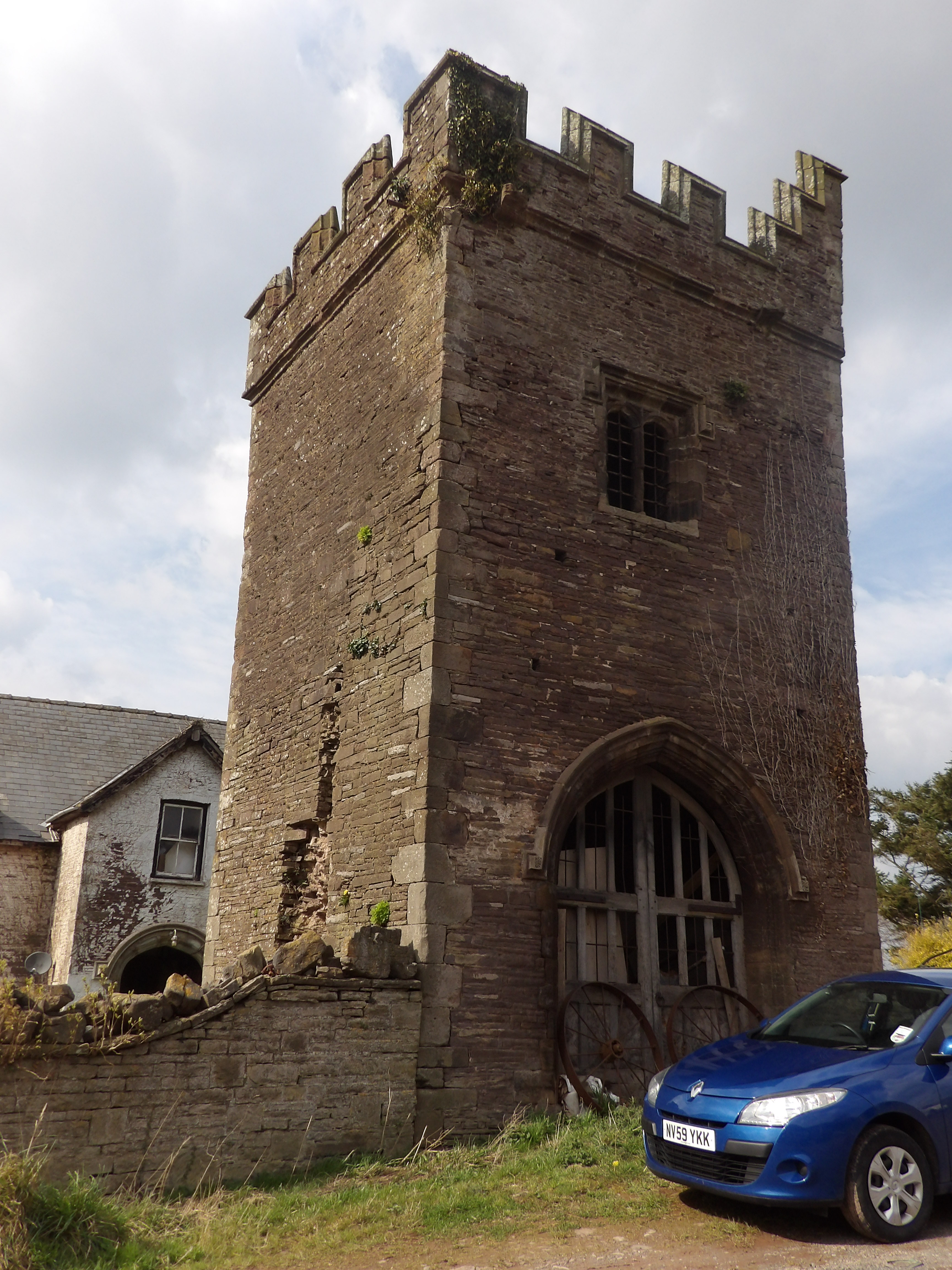 Gatehouse to Great Porth-Amel